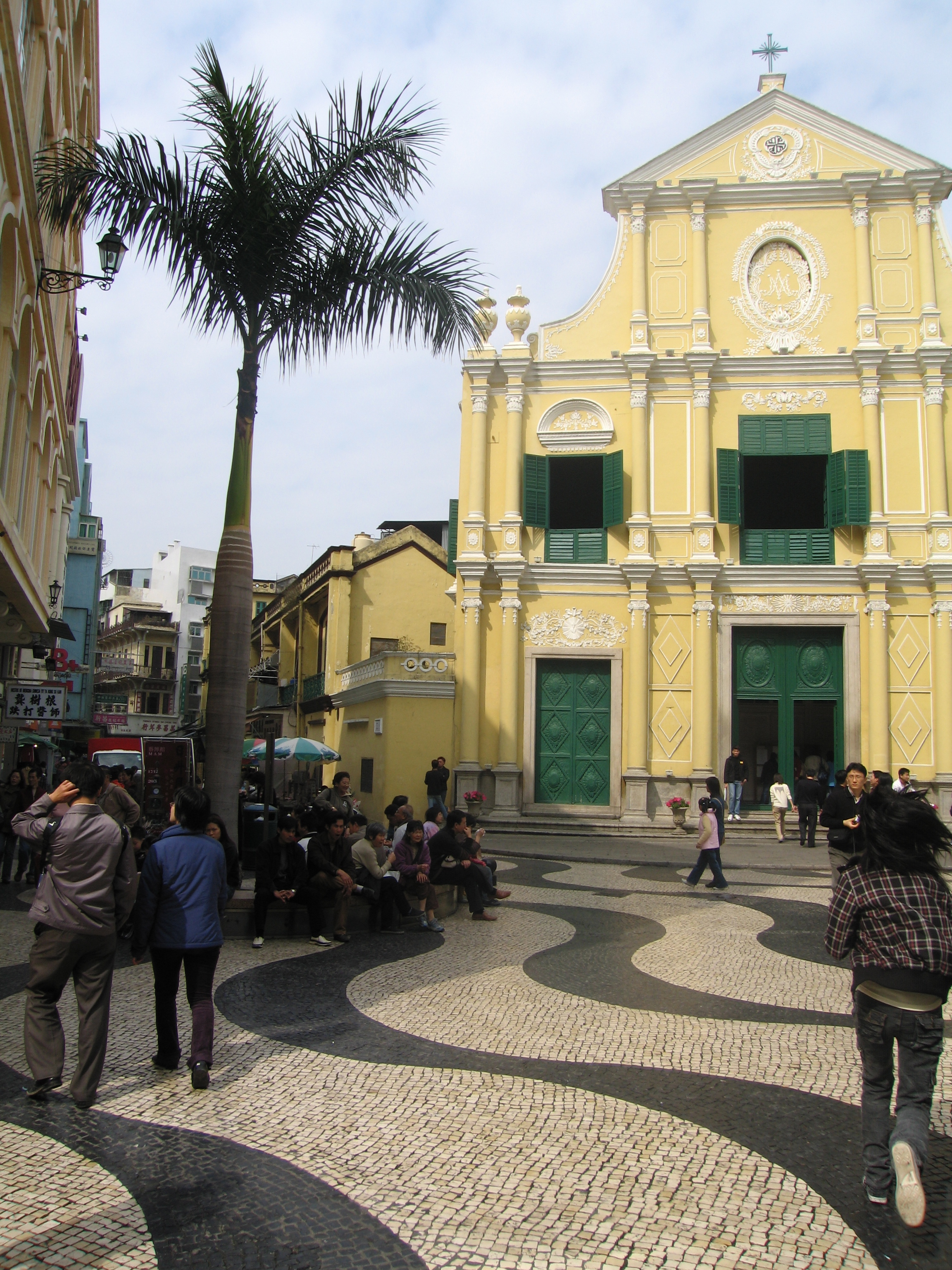 This early 17th century church in Macau has a violent history.